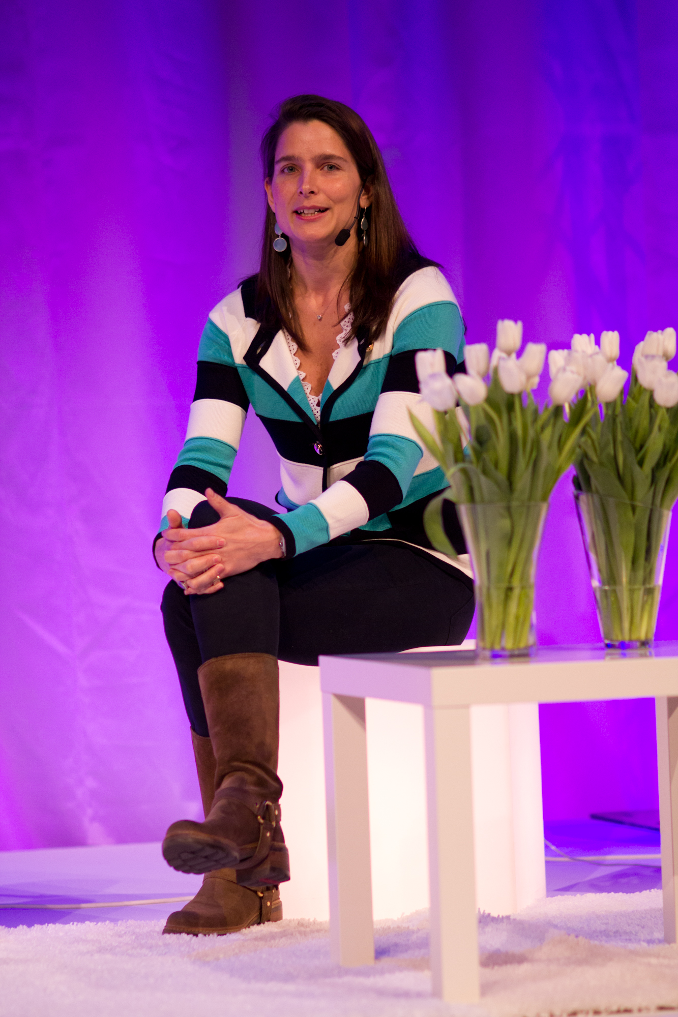 Louise Wachtmeister @ Webbdagarna 2012 Foto: Pelle Sten